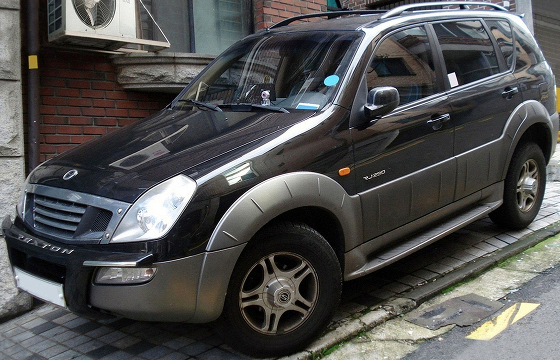 SsangYong Rexton